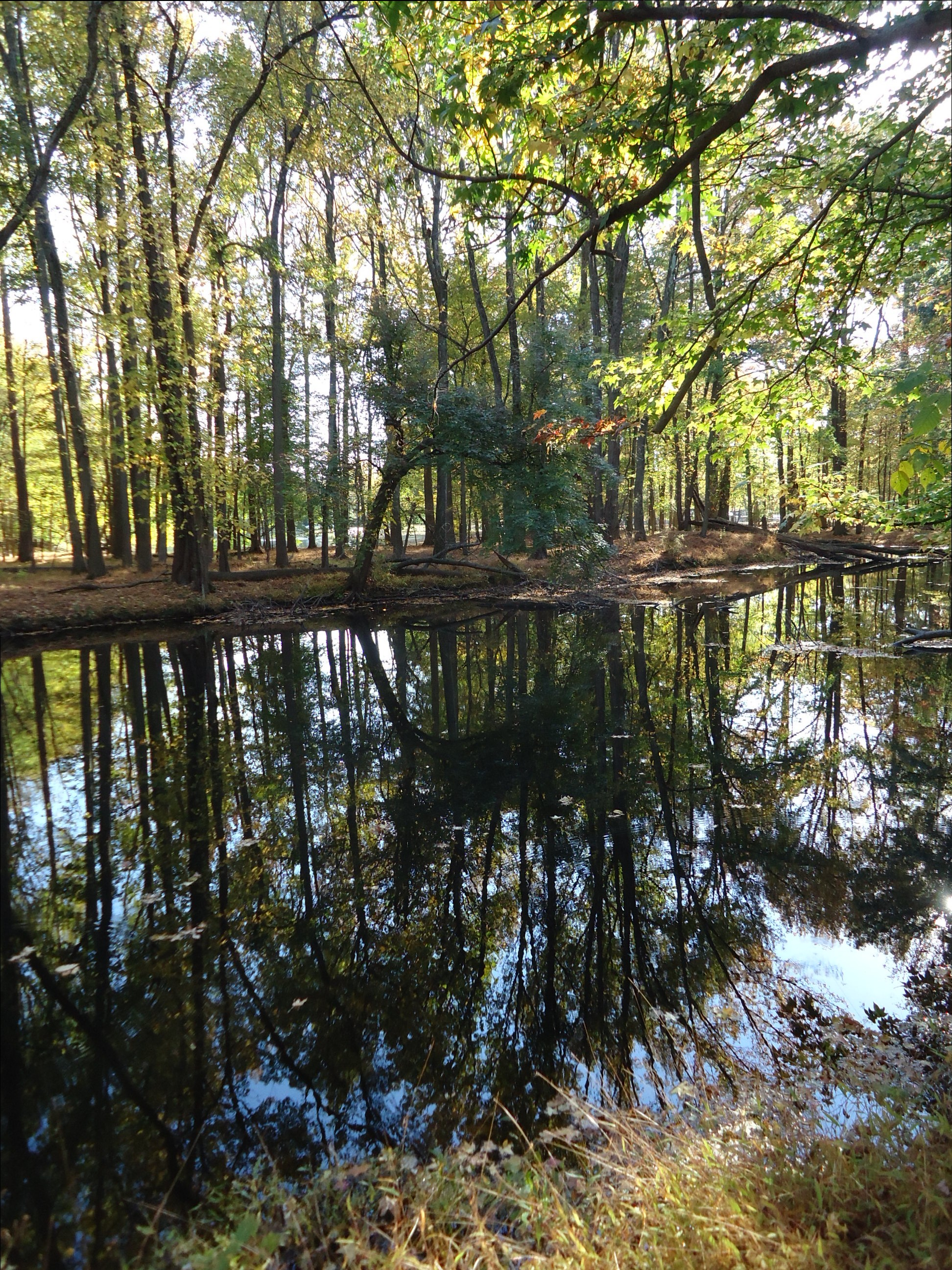 Reflections of trees in stream in park in Union County, in Cranford, New Jersey.